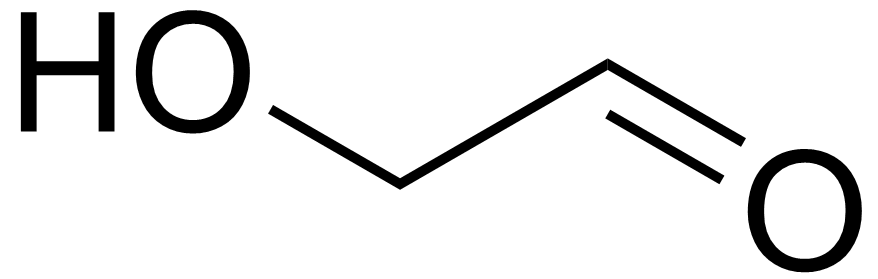 chemical structure of glycoladehdye